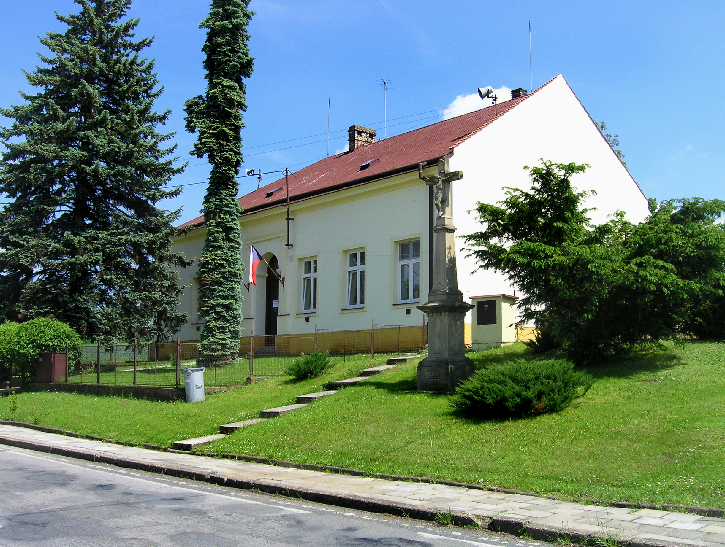 Old school in Těšánky, part of Zdounky village, Czech Republic